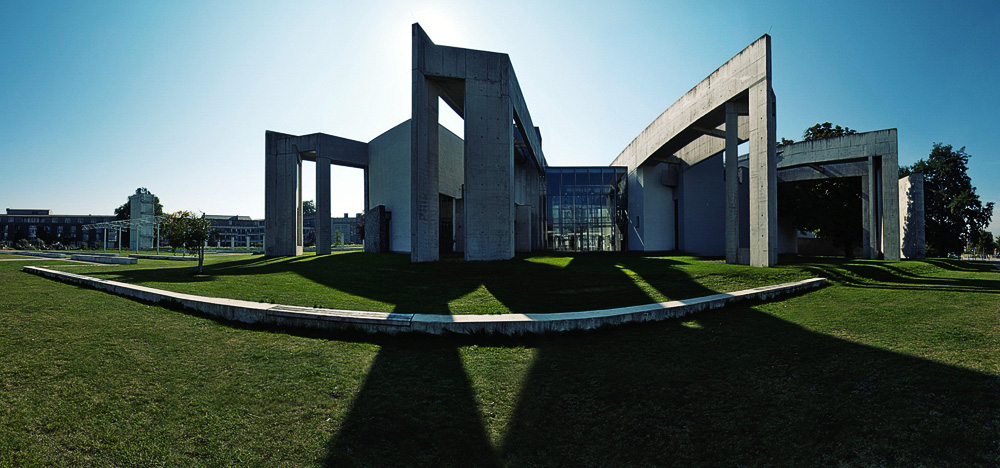 Jewish Cultural Centre in Duisburg/Germany constructed by the architect Zvi Hecker own photo september 23, 2005 photo: nomo/michael hoefner